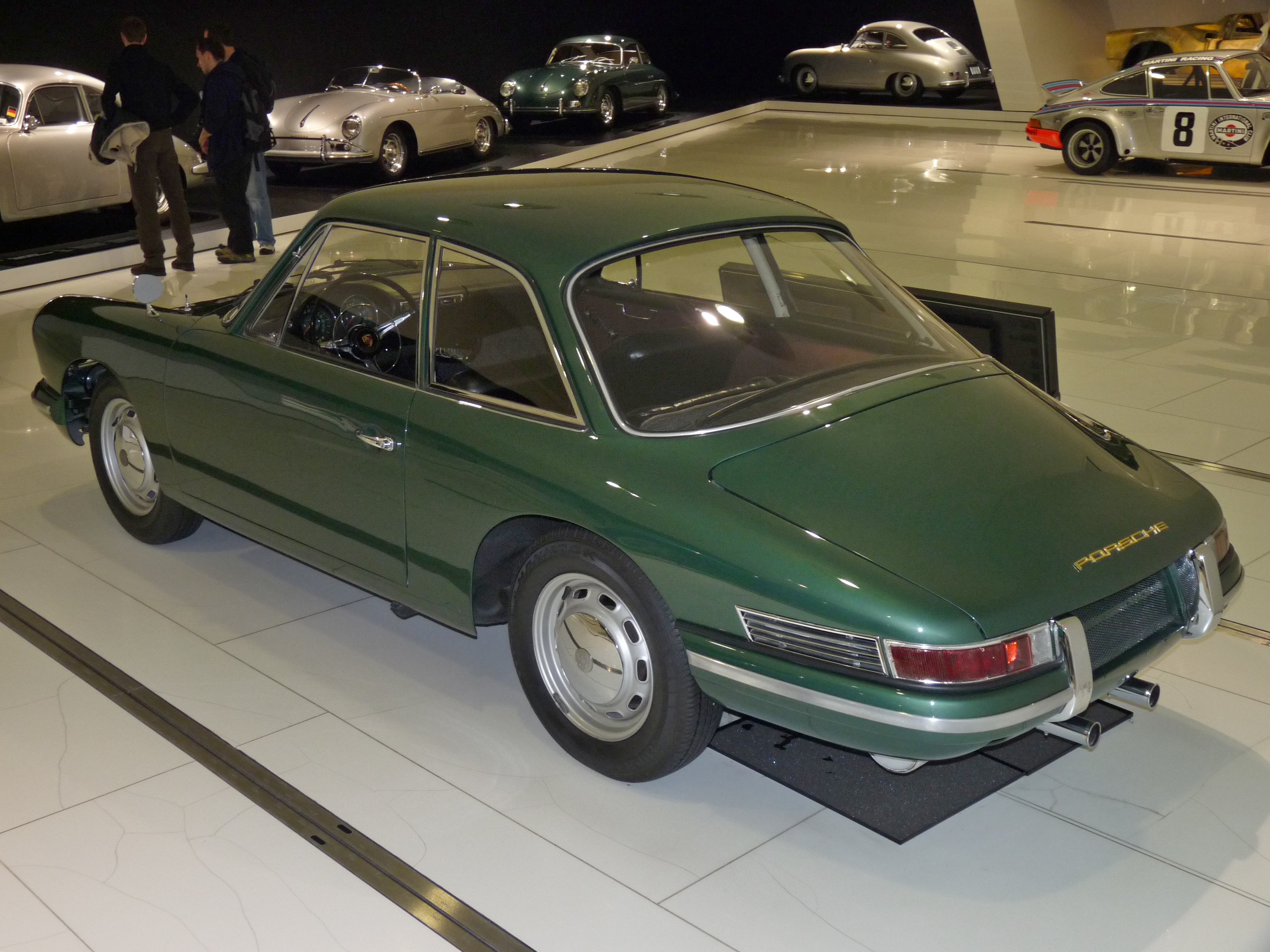 see filename for despcription - seen at Porsche Museum Native namePorsche-MuseumLocationStuttgartCoordinates48° 50′ 07″ N, 9° 09′ 06″ E Established1976 (old museum) 2009 (new museum)Web page control : Q328623 VIAF: 138511768 GND: 2087859-X SUDOC: 155641123 NKC: ko2015876799 institution QS:P195,Q328623